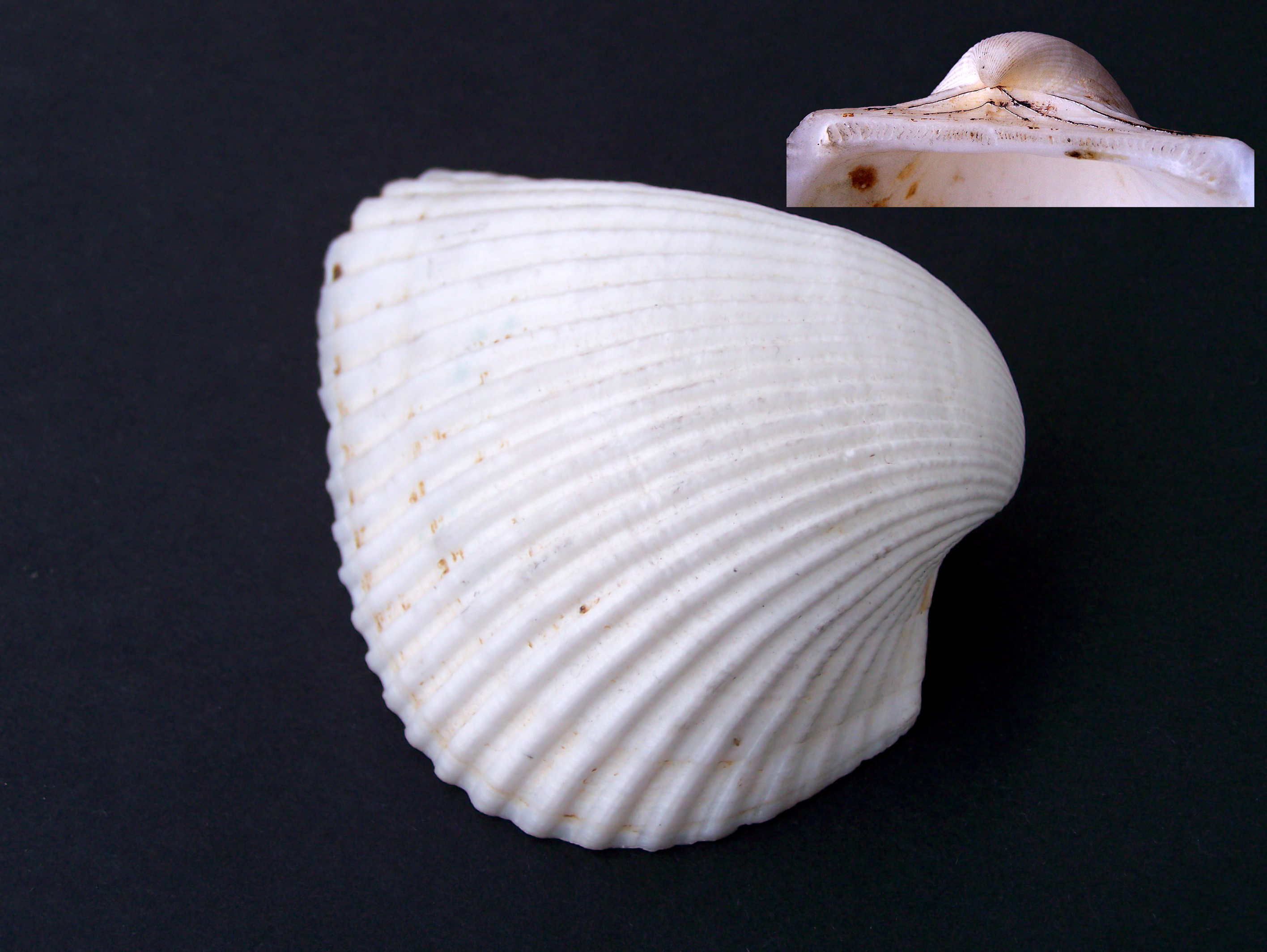 Ark clams; ark shells; arks. Family: Arcidae Lamarck, 1809 – arks Locality: Baja California Area: W. Mexico Shell length, 9o mm. Shell height, 70 mm. Radial sculpture regular: 30 ribs